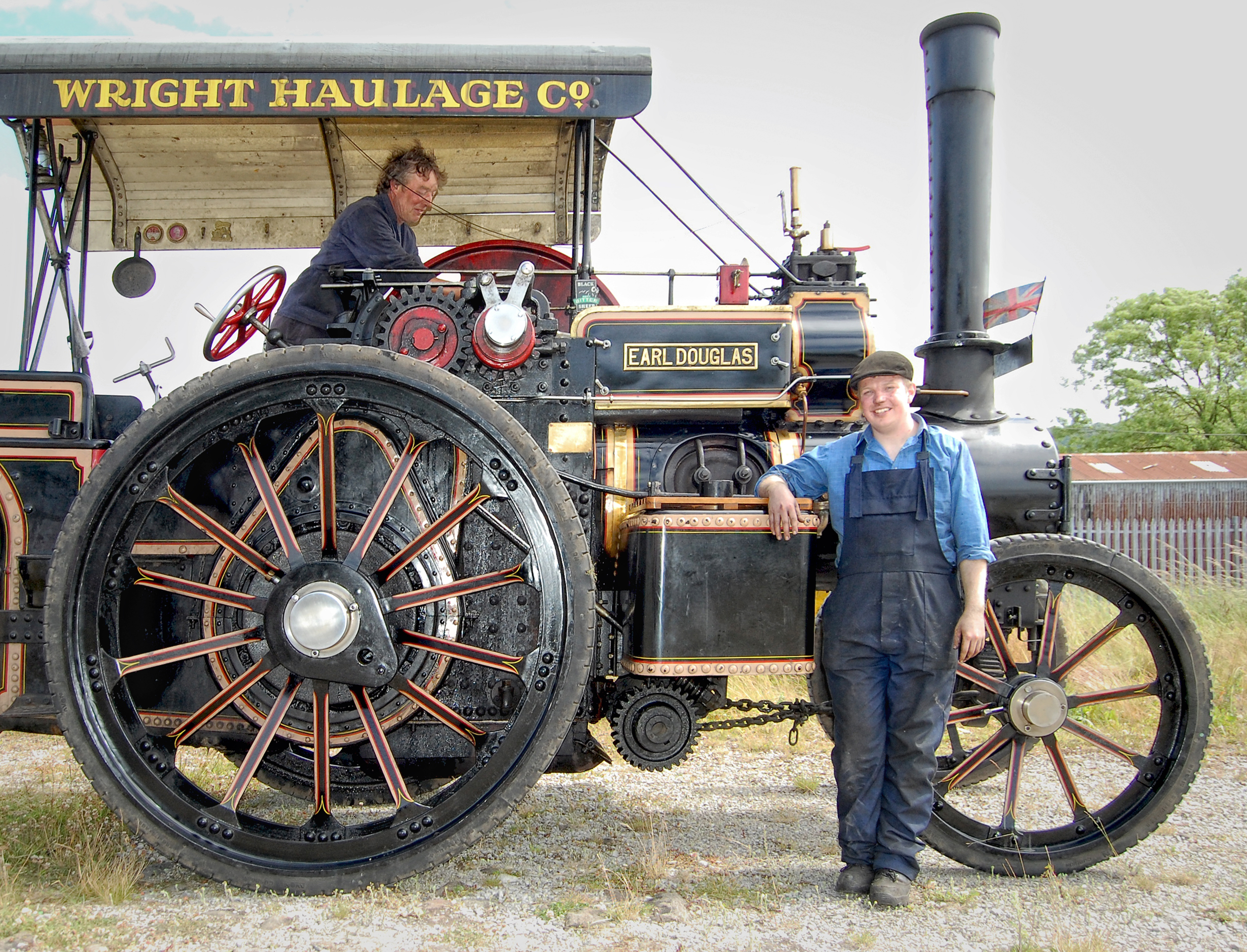 Two operators seen after taking part in a parade with their engine, 'Earl Douglas' at Otley Carnival in Yorkshire, England. The original image can be seen at this address.